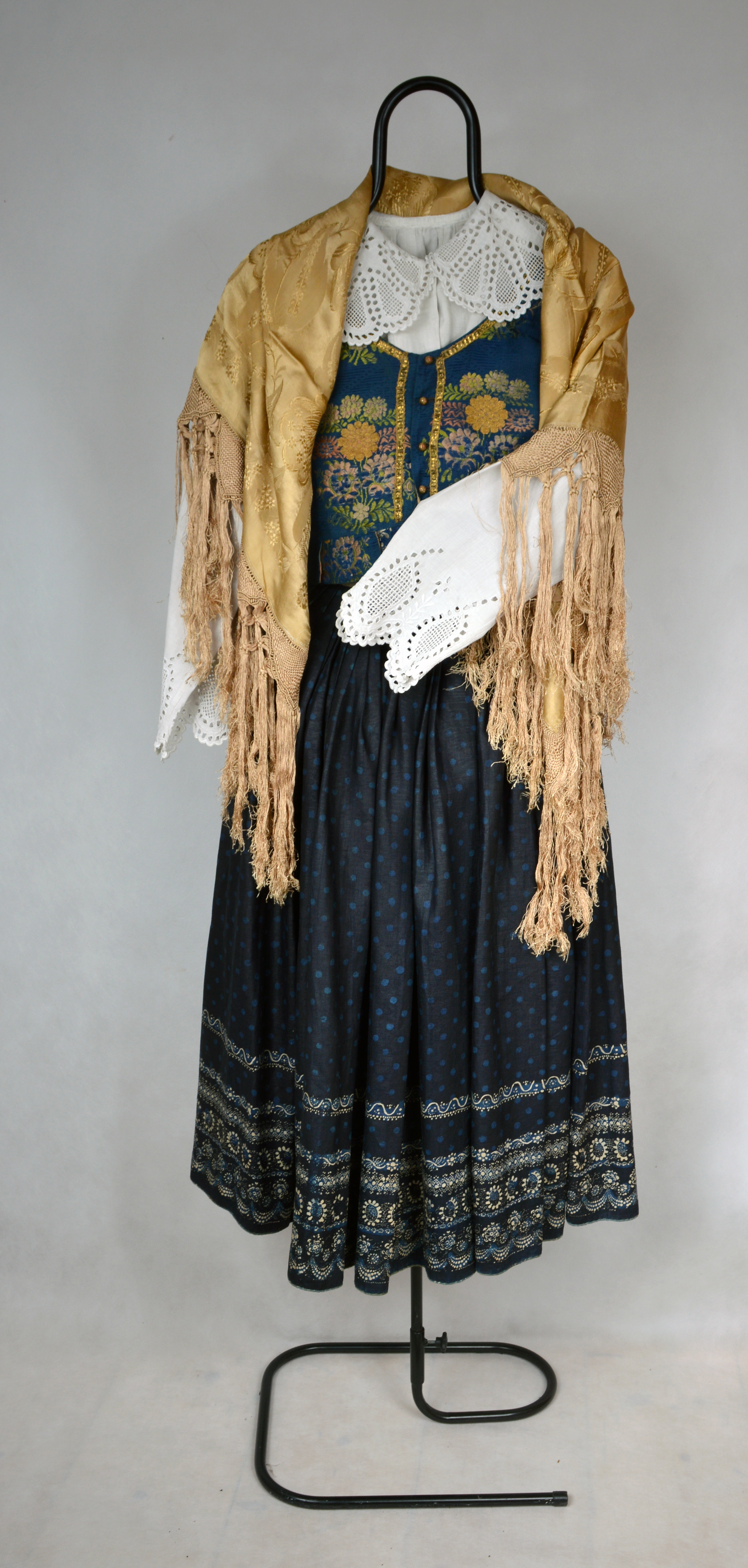 Traditional wear for woman from Podhale, Poland. The property of Muzeum Tatrzańskie, Zakopane, Poland.